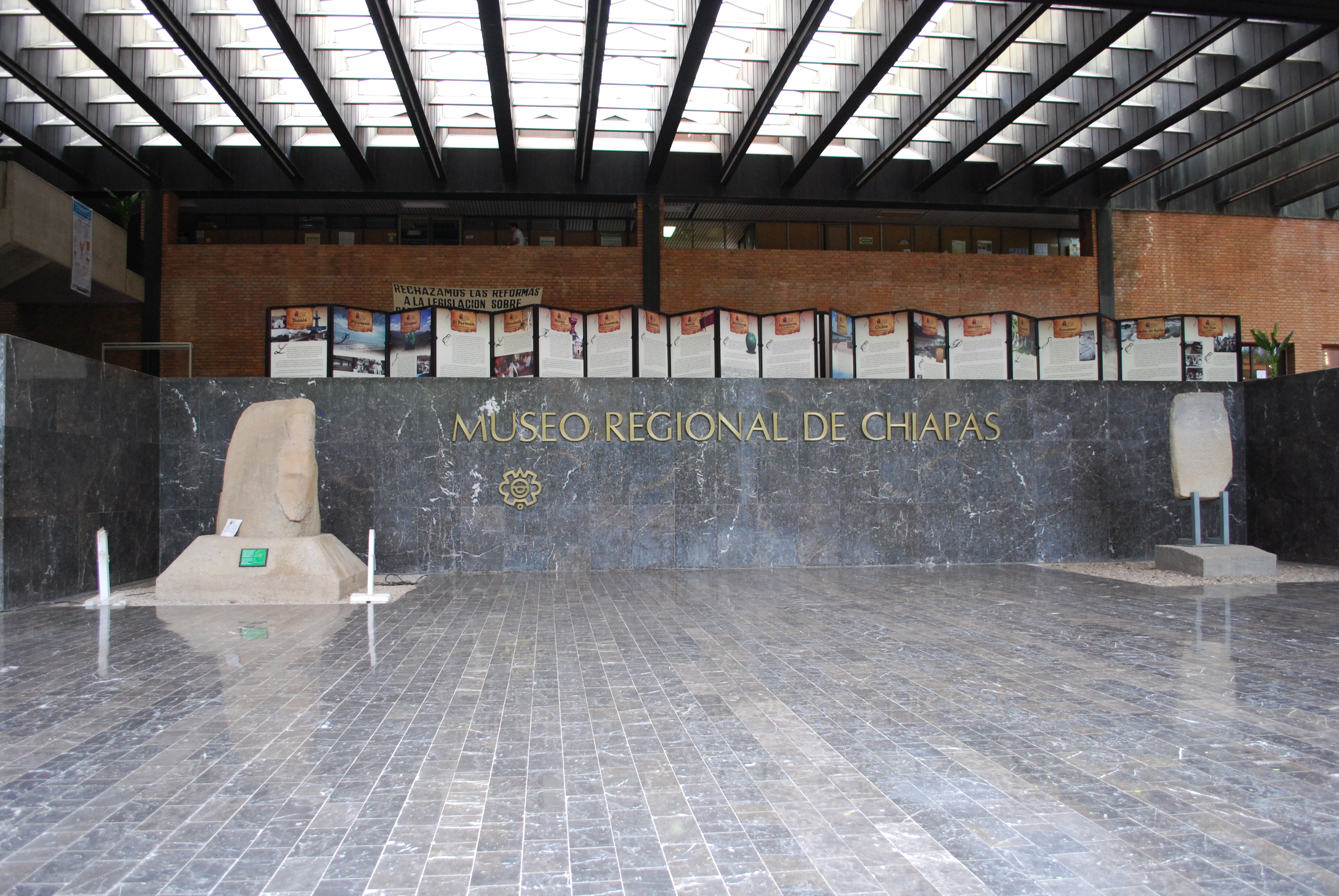 View of the open area between the two main halls of the Regional Museum in Tuxtla Gutierrez, Chiapas, Mexico